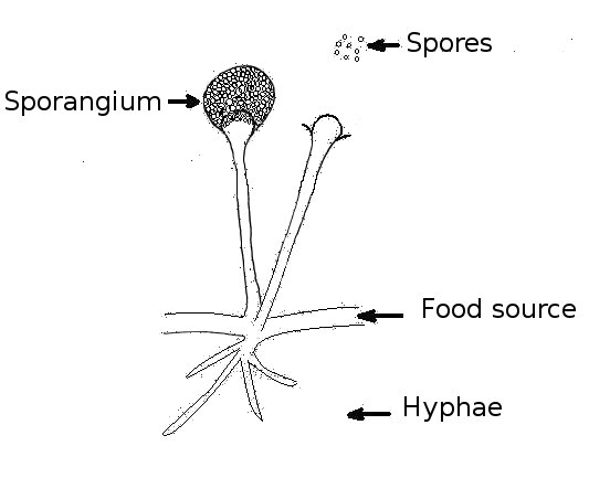 Structure of fungus